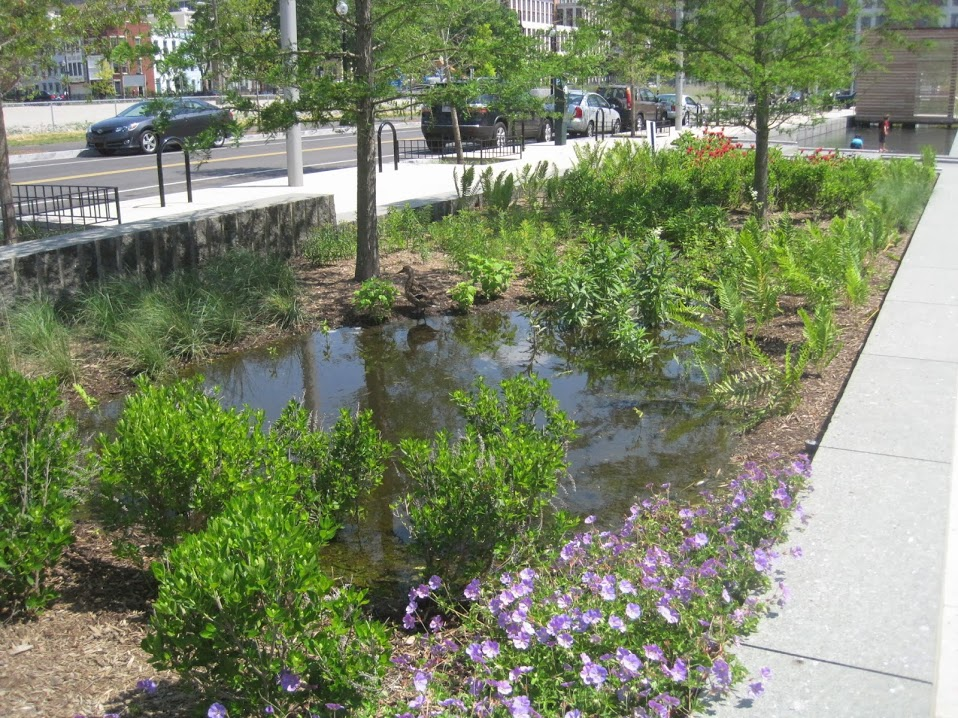 Green infrastructure includes a wide range of approaches, including rain gardens, which catch rain water for plants instead of letting it run off into storm drains. Learn about green infrastructure approaches that can help transform communities in our report, Enhancing Sustainable Communities With Green Infrastructure. Photo credit: Alisha Goldstein, EPA More